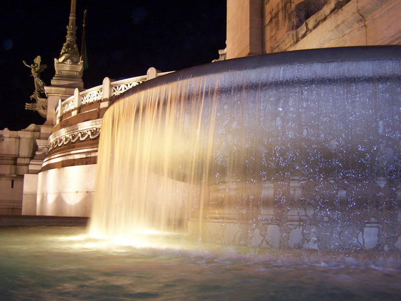 Fountain, Monument Victor Emanuel, Rome. Italy